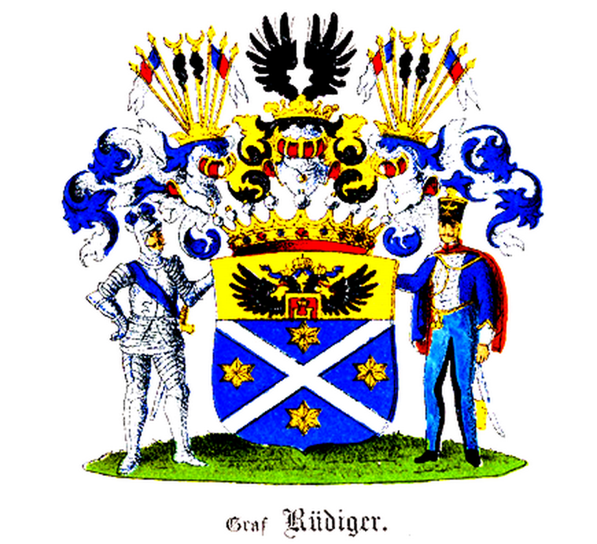 Coat of Arms of count Rydiger